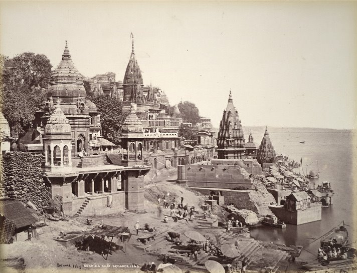 Photograph of Hindu temples at the Manikarnika Ghat on the River Ganges at Varanasi (Benares) in Uttar Pradesh, India, from the Macnabb Collection: Album of views of India and Burma, taken by Samuel Bourne in the 1860s. Varanasi is one of the seven sacred cities of Hinduism, situated on the Ganges River at a place where it bends to the north, considered to be an auspicious direction. Much of the religious life of the city revolves around the ghats. Hindus believe that bathing here purifies them of sin. It is known as a tirtha or ‘crossing place’ where devotees can gain access to the divine and where gods and goddesses can come down to earth. It has been a centre of pilgrimage among Buddhists, Hindus and Jains for more than 2500 years. The city’s riverbank is dominated by a great number of ghats, long flights of stone steps, where people come to perform religious rituals including cremation and ablution in the River Ganges. Pilgrimages involve immersion in the river at particular ghats and bathing in sacred kunds (tanks) as well as visiting auspicious sites and temples to worship.This photograph is a view of the temples on the steeply rising western bank of the river, next to the steps of the Manikarnika Ghat, the main cremation ghat that is also regarded as the oldest and most sacred. In the middle of the Ghat is the Manikarnika kund (tank) which is said to have been dug by Vishnu with his discus and filled with his perspiration from the exertion of creating the world. There are footprints of Vishnu set in a circular marble slab on the ghats. According to legend, Shiva's mani (crest jewel) and his consort Parvati's Karnika (earring) fell into the kund while bathing, thus came the name of the Ghat.